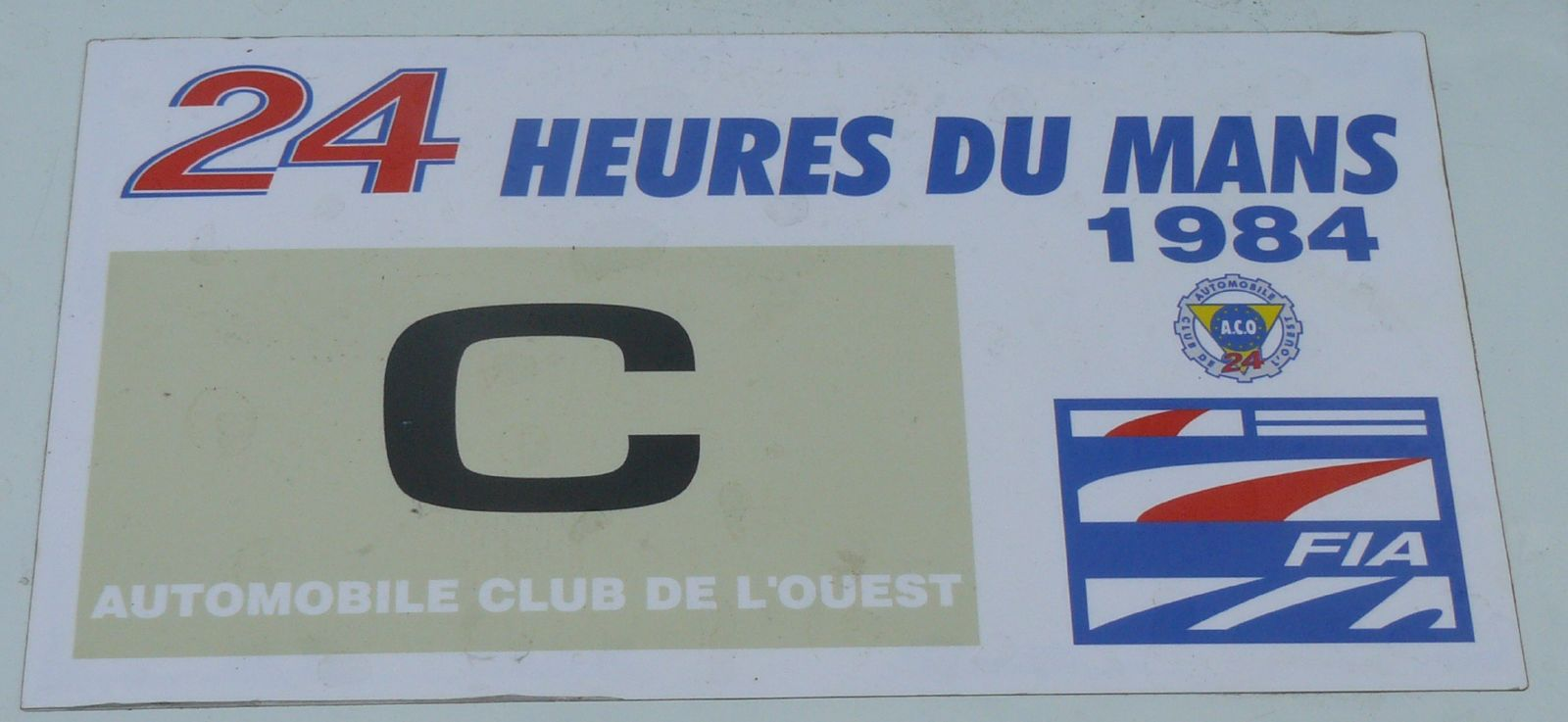 A sticker denoting the Group C class on a car from that category.